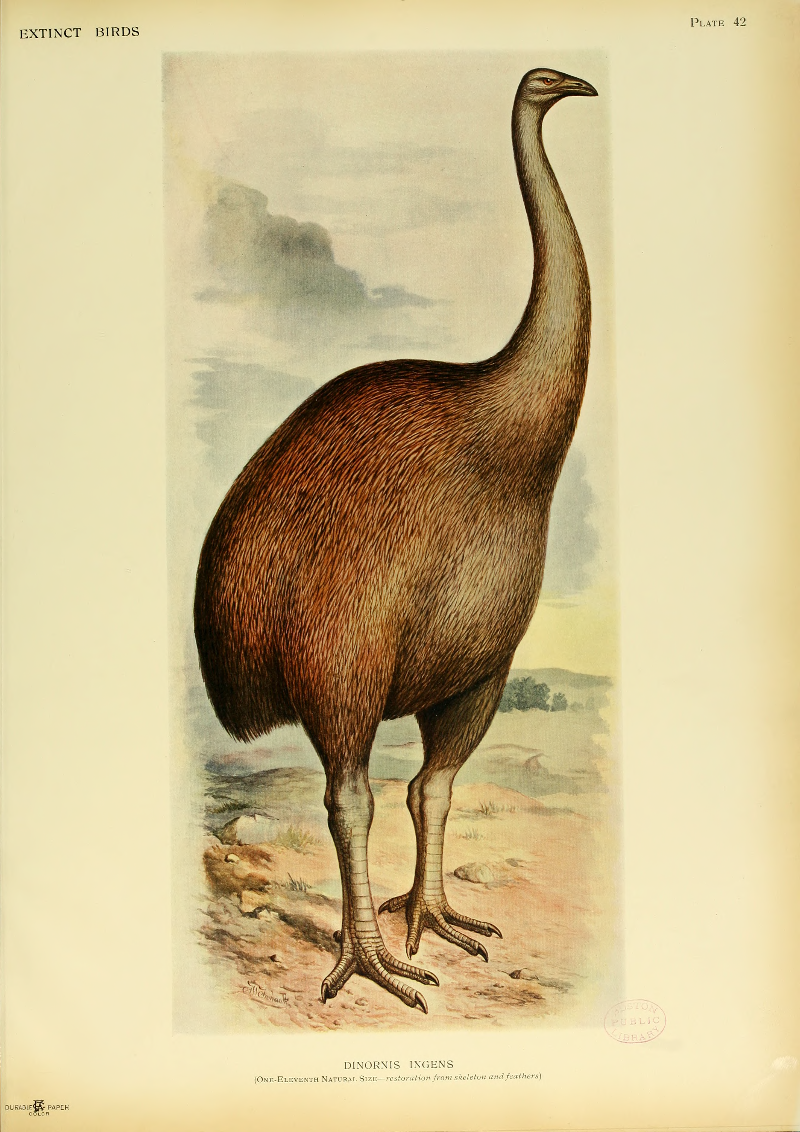 The giant moa (Dinornis novaezealandiae) is an extinct genus of ratite birds belonging to the moa family. It was endemic to New Zealand. In Rothschild's book 'Extinct Birds' this moa has been given the scientific name Dinornis ingens.